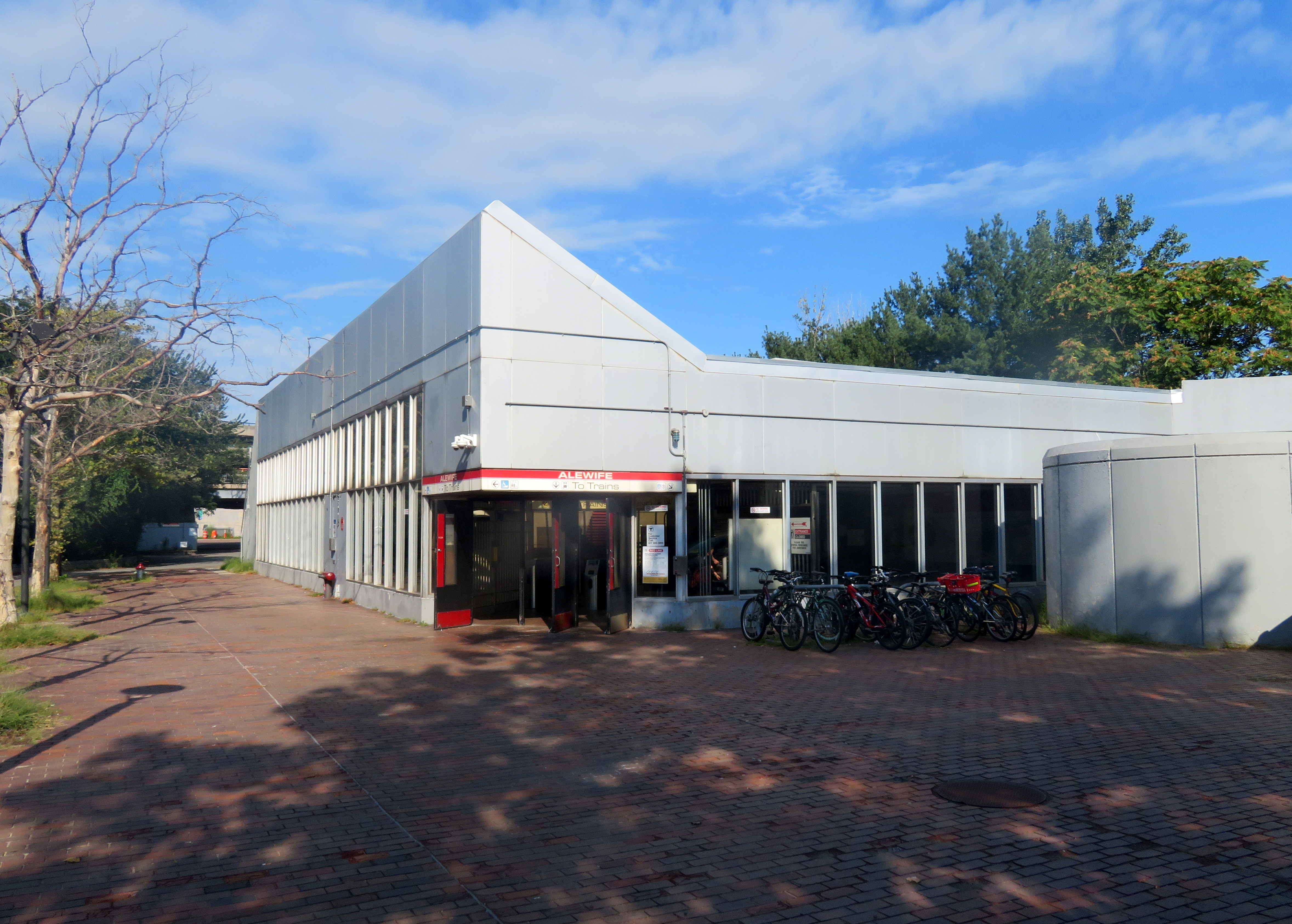 The east headhouse at Alewife station in August 2018